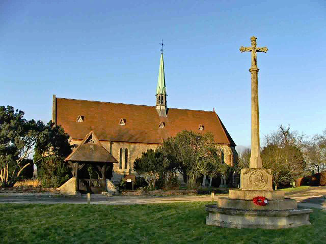 St Mary's Church, Bayford, Hertfordshire, with the War Memorial.